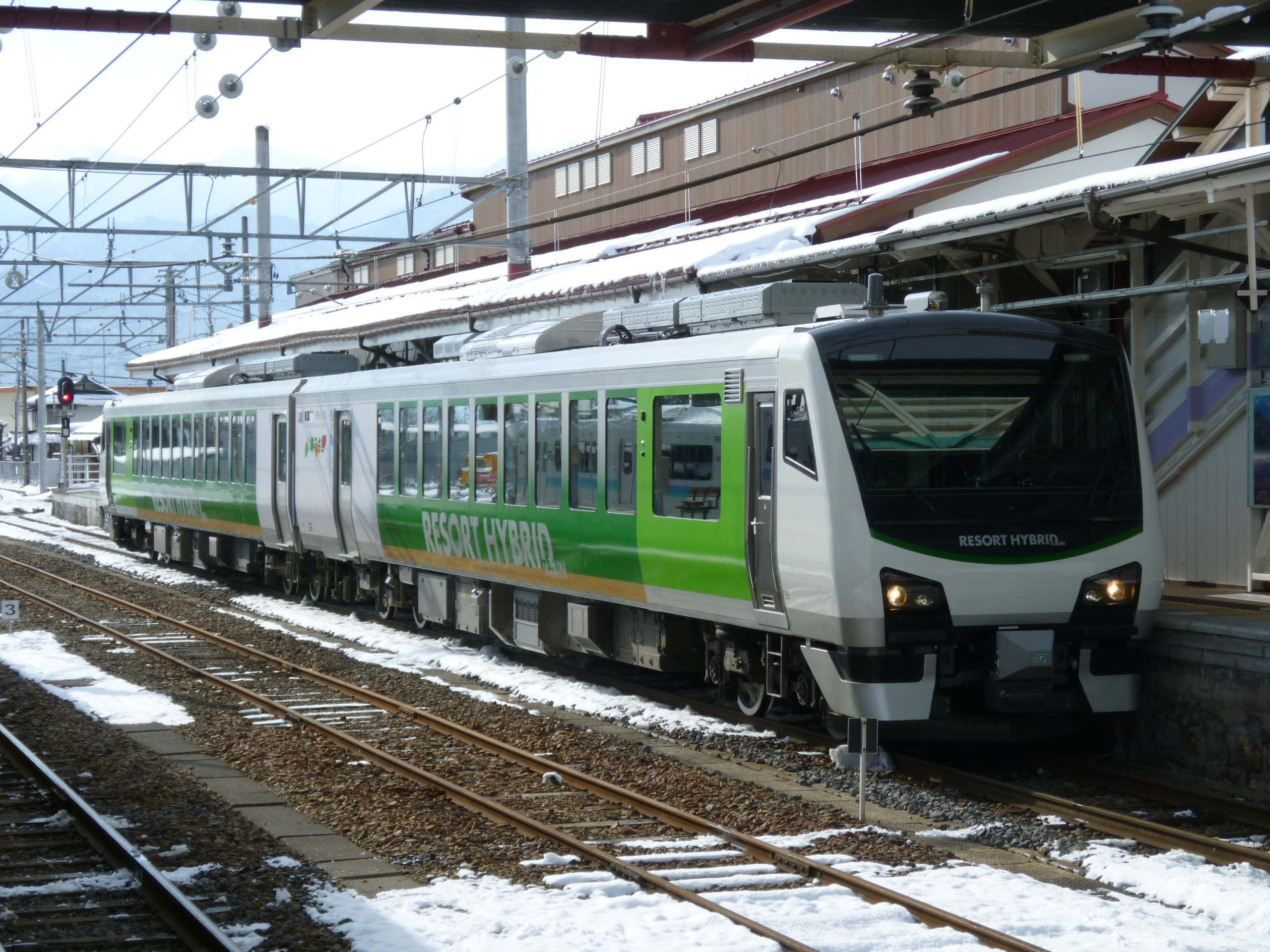 JR East HB-E300 series "Resort View Furusato" hybrid DMU at Shinano-Ōmachi Station